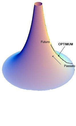 The world of the book: "Inverted World" by Christopher Priest